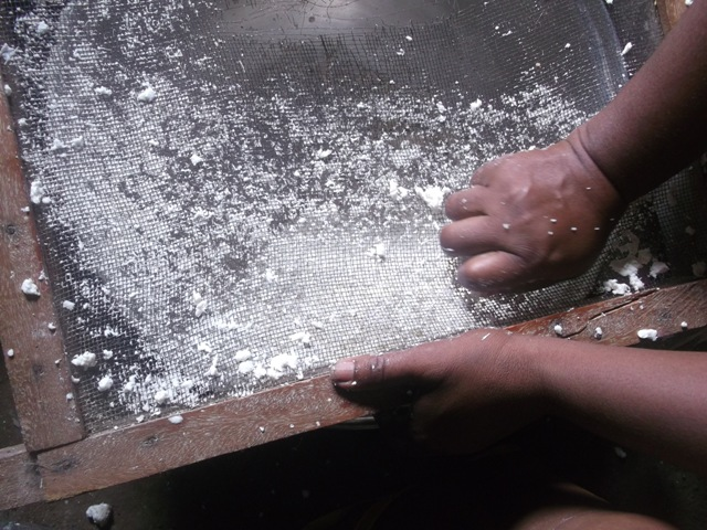 This is an image of food from Cameroon